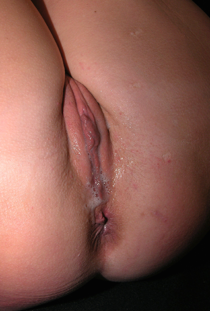 Lubricated and swollen vaginal lips of a white woman